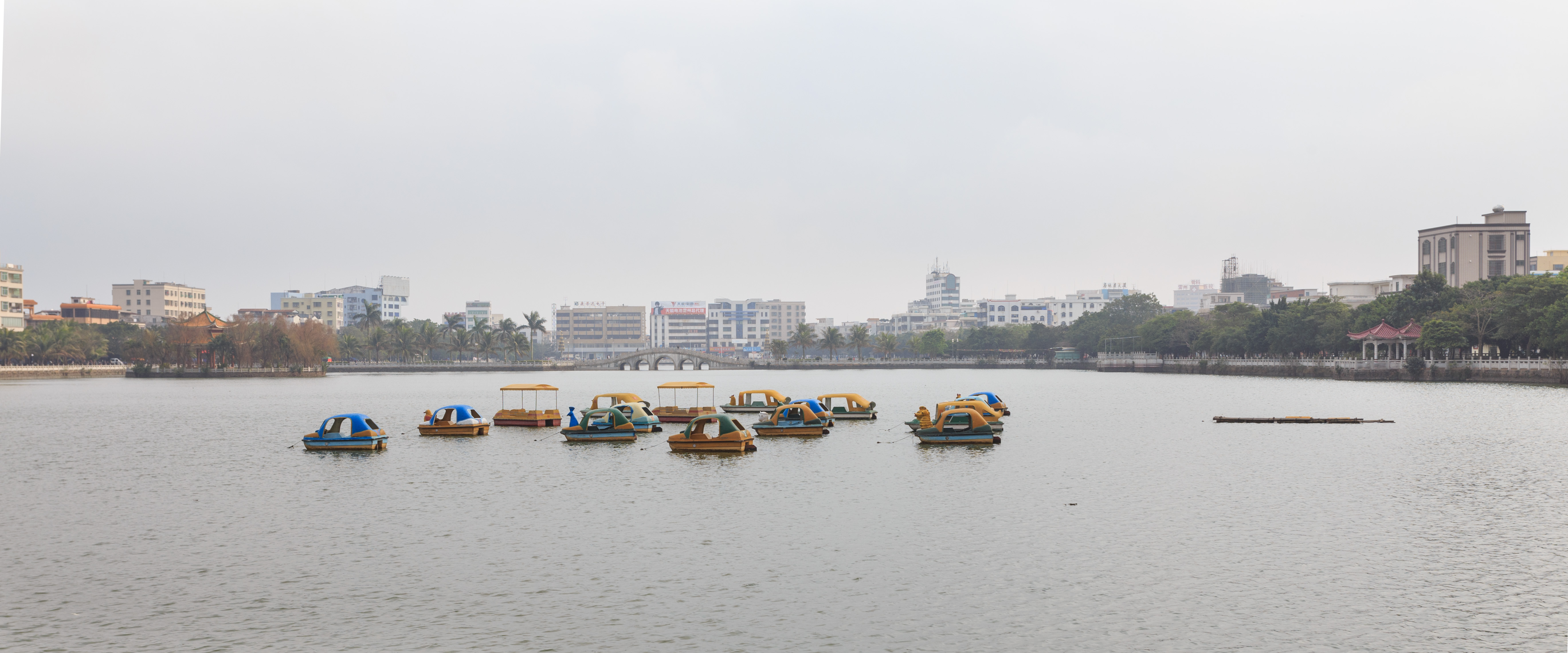 The Leihu Lake in downtown Leizhou City. (Not to be confused with Leizhou West Lake (Xihu), which is located a short distance to the north of Leihu)